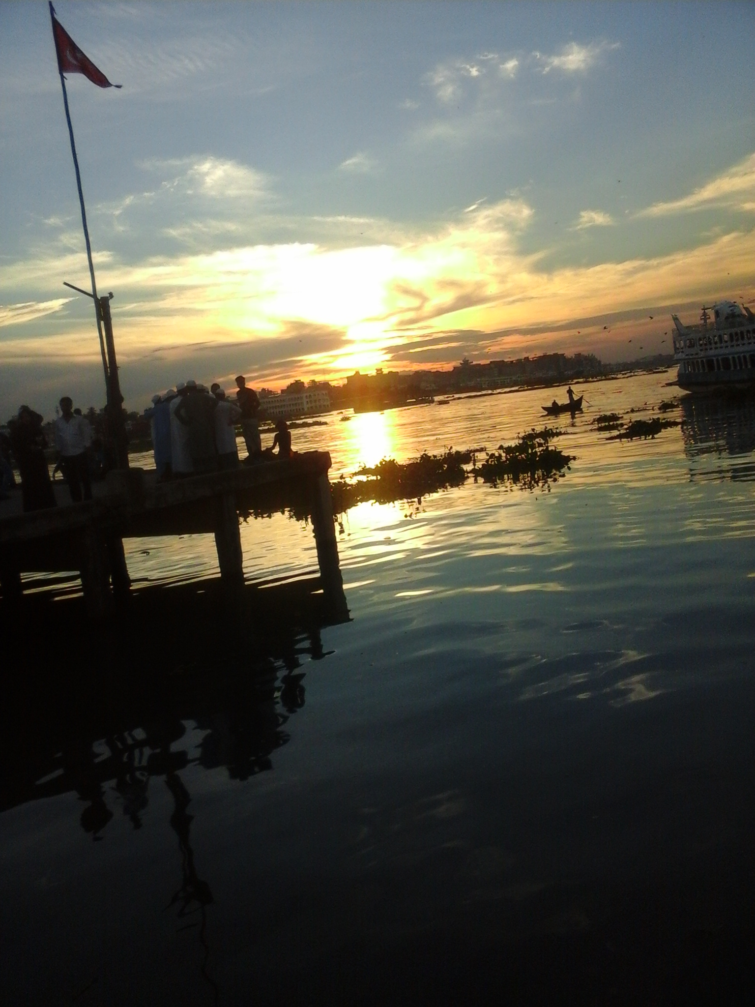 Buriganga River park is a Street park of the river.